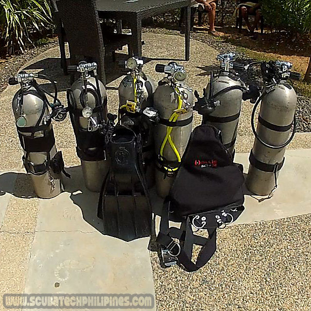 Cylinders and equipment for a technical sidemount dive. 2 primary and 1 deco tank per diver. Sidemount BCD shown is a Hollis SMS50.